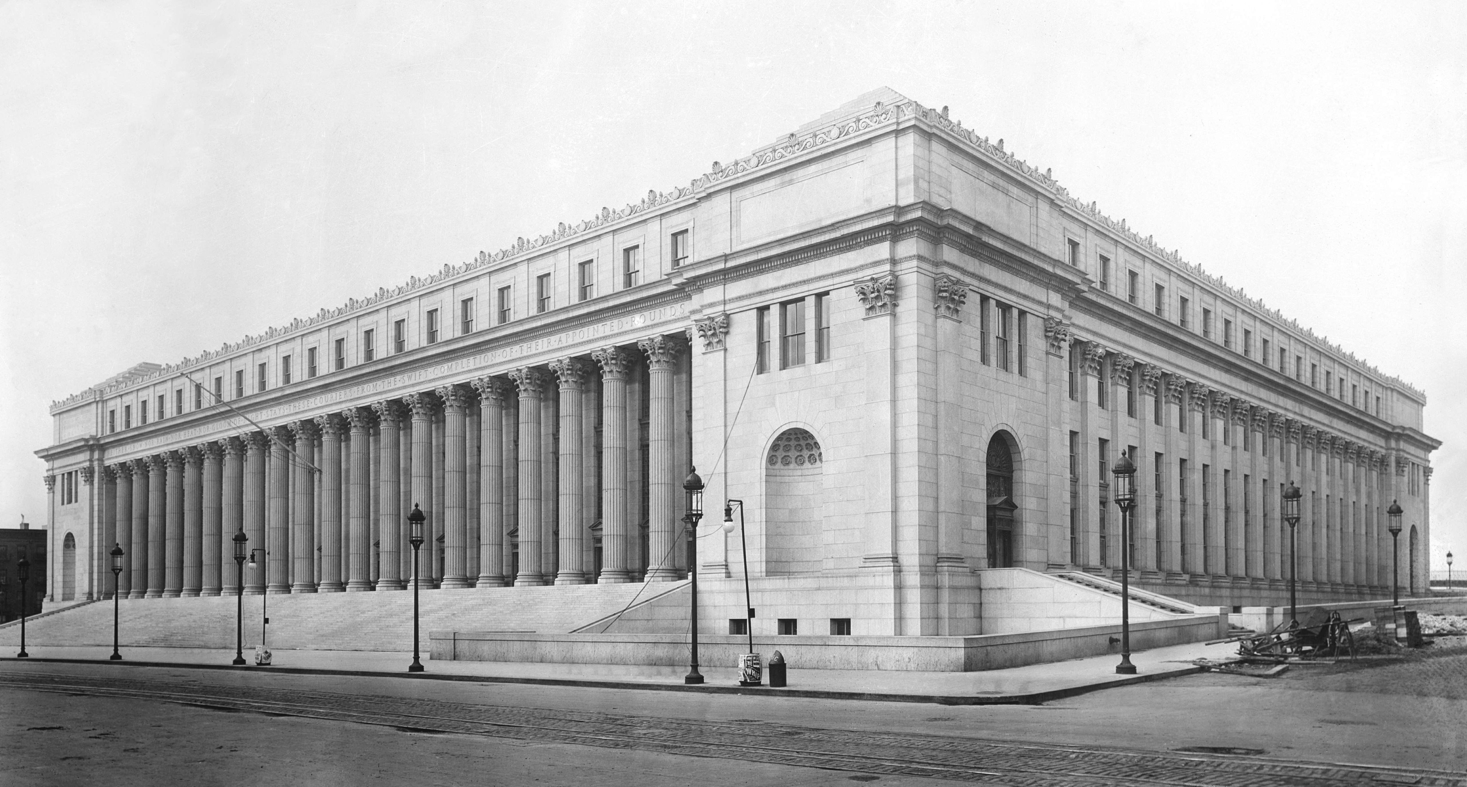 Photograph shows the Pennsylvania Terminal Post Office (General Post Office Building), now called the James Farley Post Office, located at 421 Eighth Avenue, New York City.